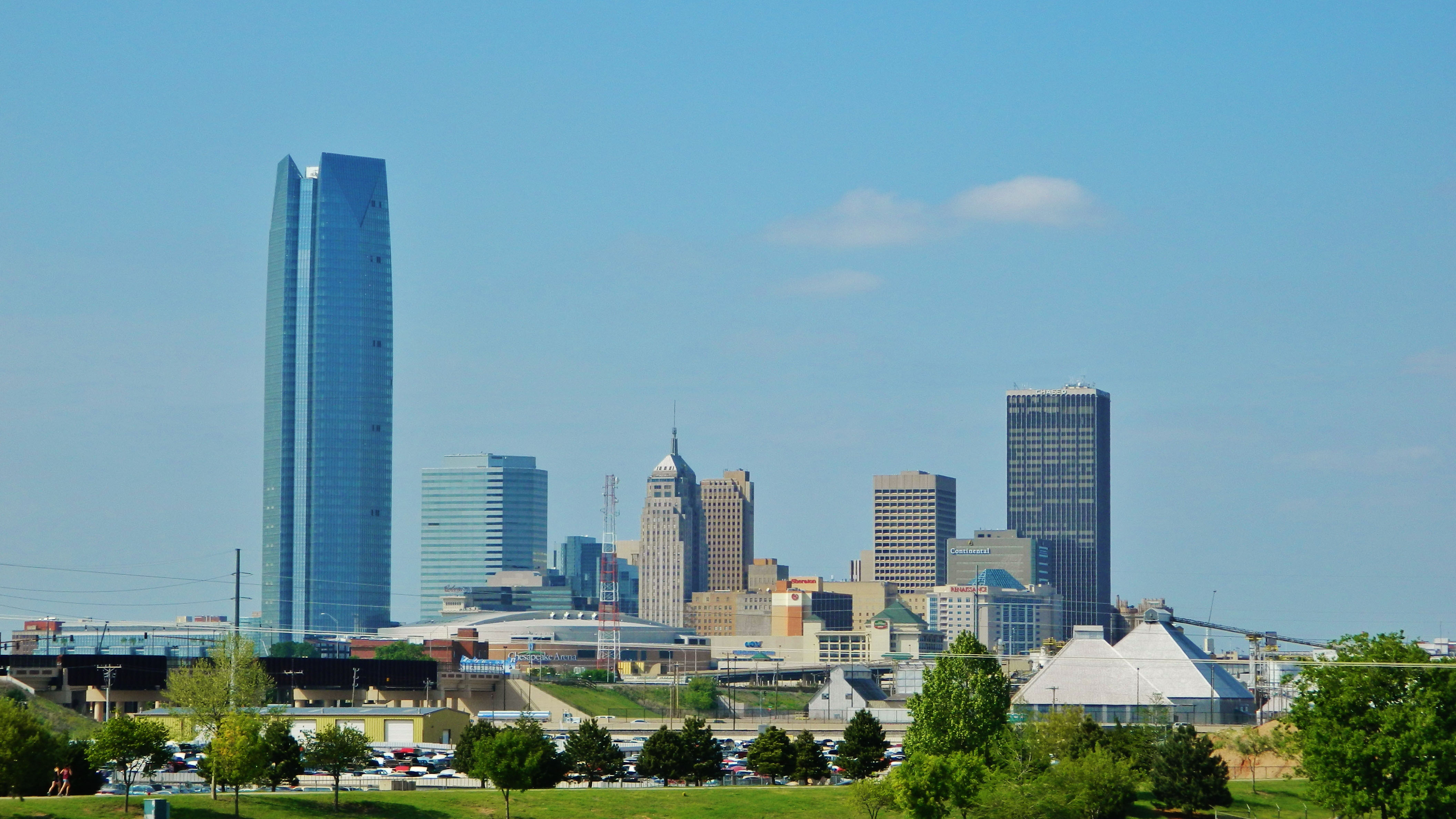 Looking north towards downtown Oklahoma City.